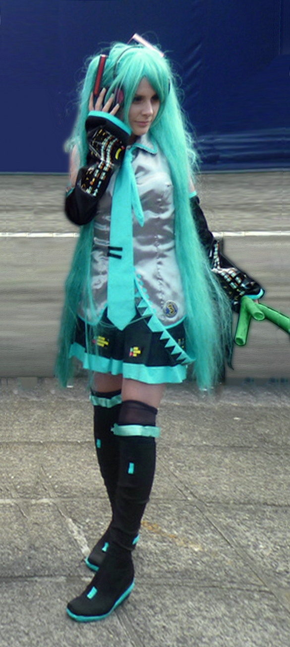 Hatsune Miku clipped from File:Cosplay Kurisumasu 2009, Costa Rica.jpg (All star cast of Vocaloid character series: Len, Kaito, Rin, Haku, Neru, Meiko, Luka, and Miku)